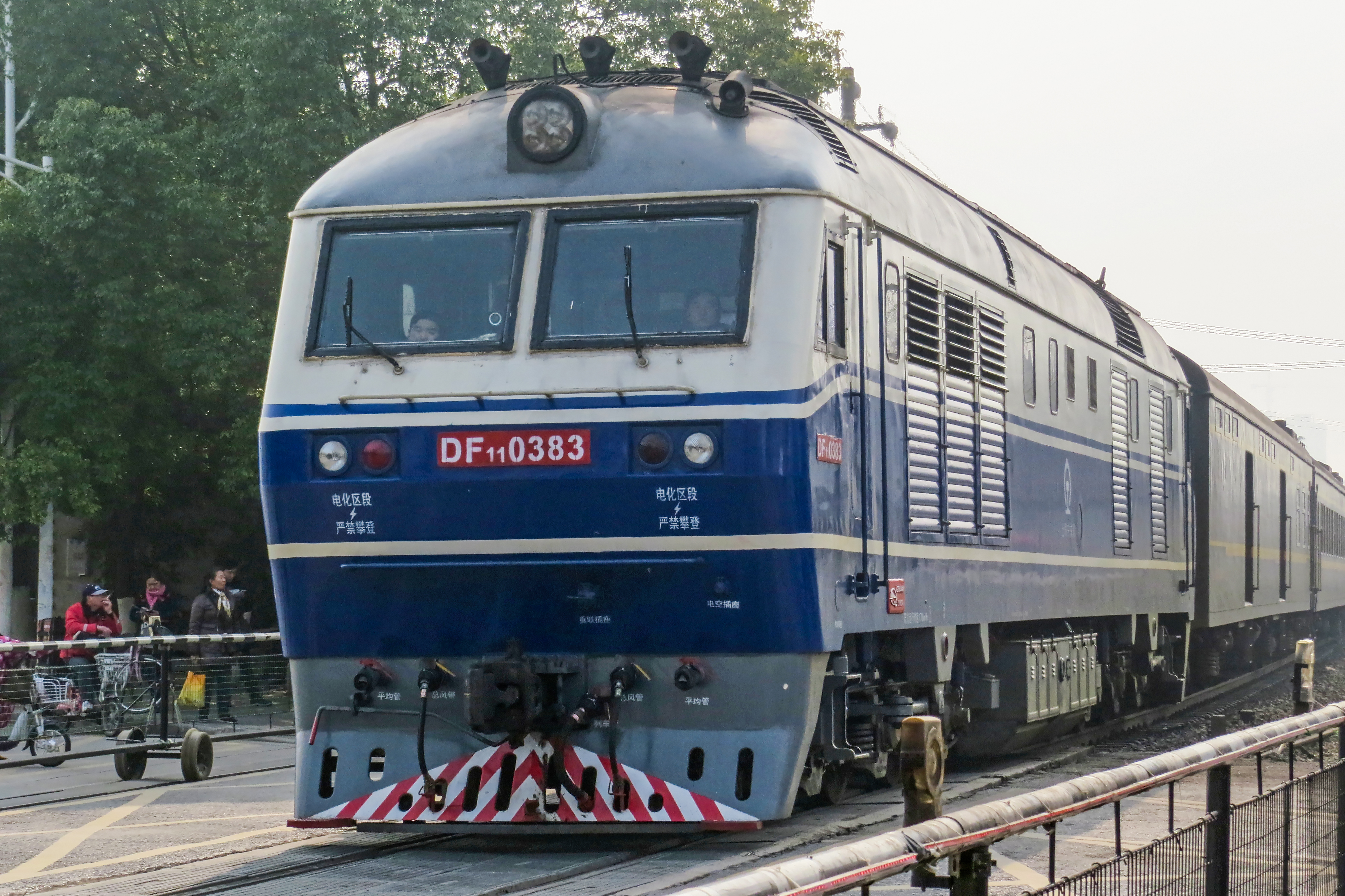 K162 from Nanning to Xuzhou. Expecting a southbound train after that ND5 passed, only to find the next train is still northbound! After all, Zhongheqiao is the largest level crossing in Jiangsu (see here.